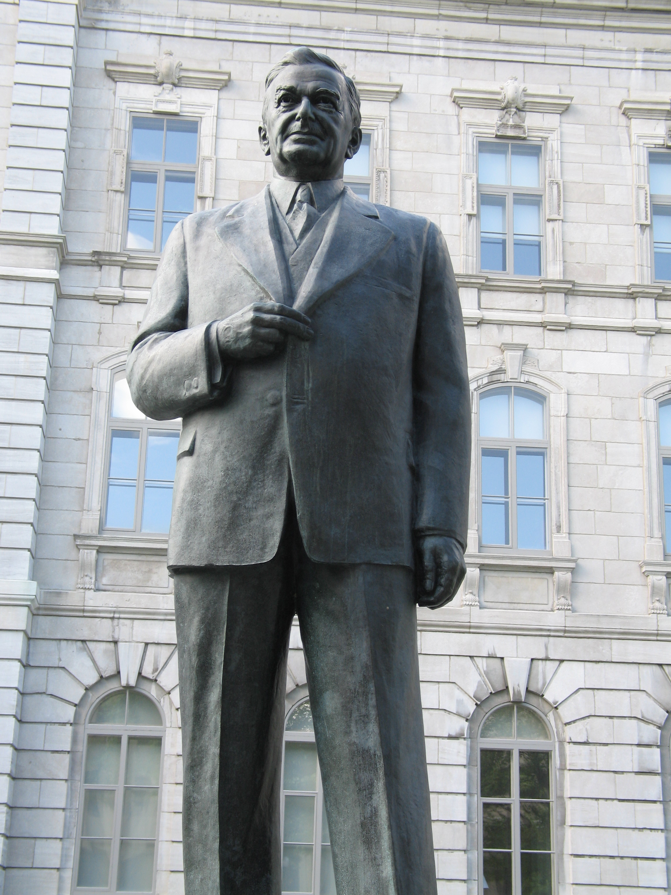 Statue of Maurice Duplessis (1890-1959) in front of the National Assembly in Quebec City.